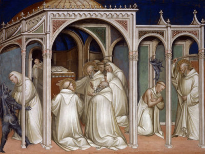 Saint Benedict Stories by Spinello Aretino